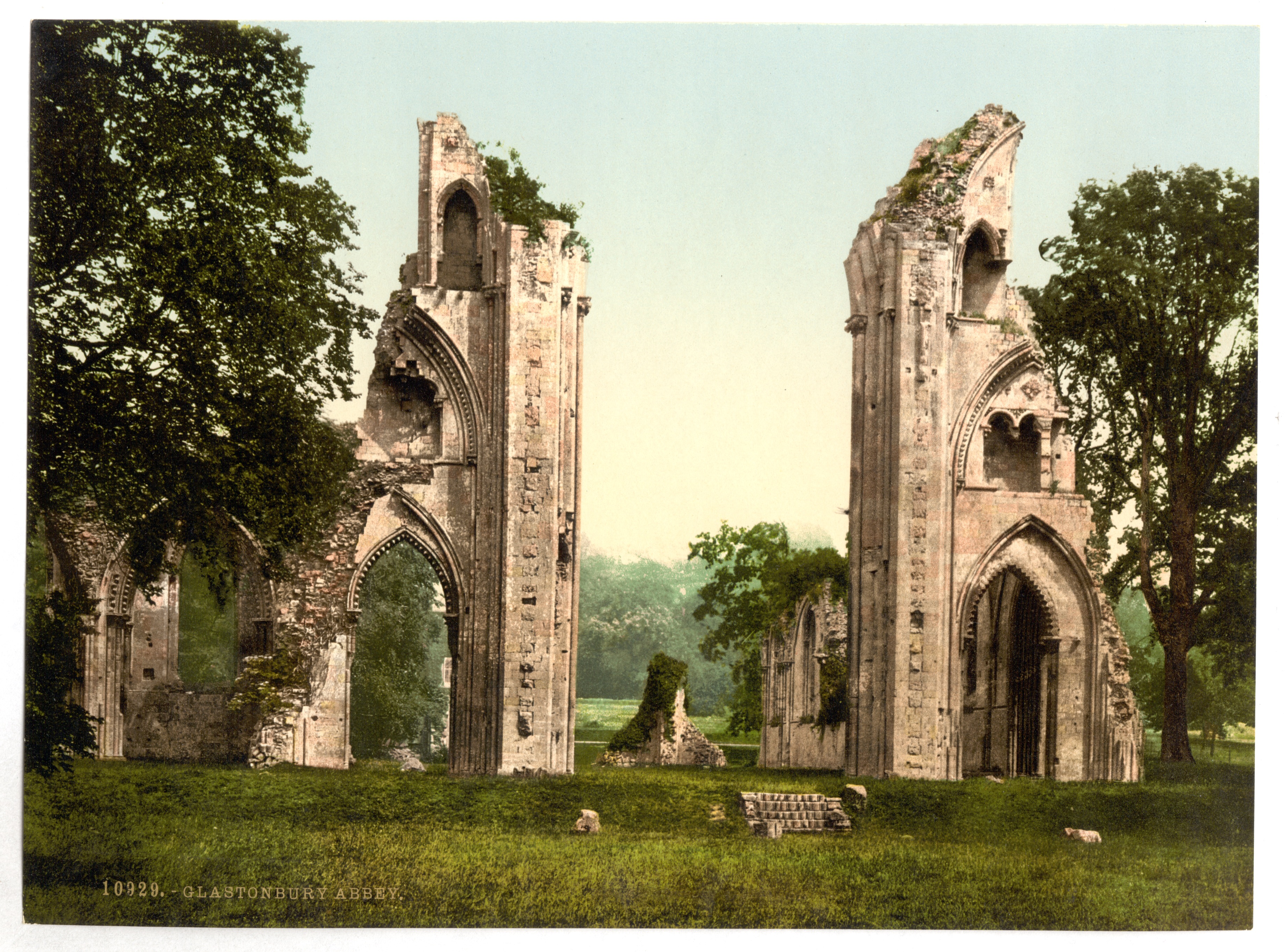 Forms part of: Views of the British Isles, in the Photochrom print collection.; More information about the Photochrom Print Collection is available at Print no. "10929".; Title from the Detroit Publishing Co., Catalogue J-foreign section, Detroit, Mich. : Detroit Publishing Company, 1905.